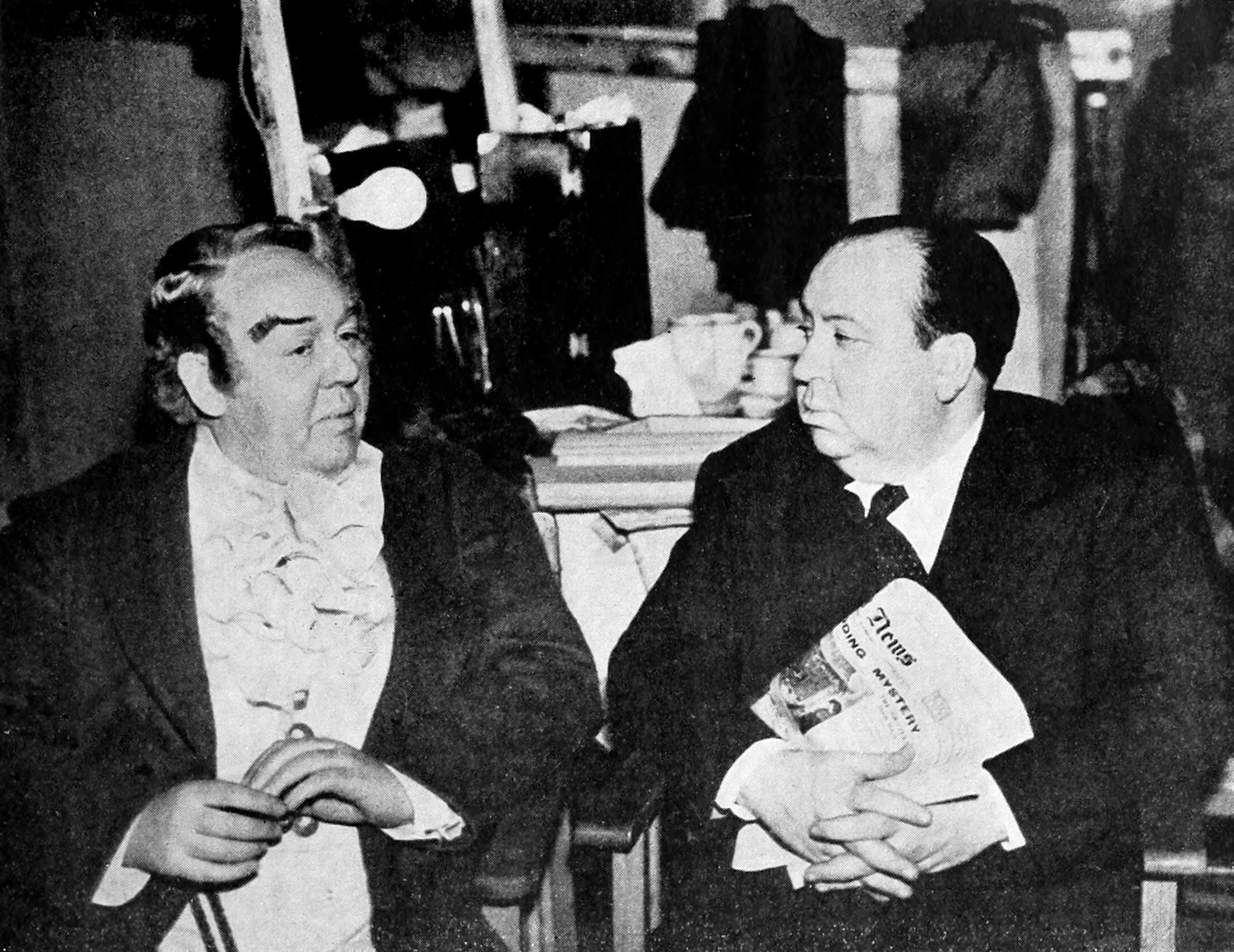 Promotional still from the 1939 film set Jamaica Inn, published in National Board of Review Magazine